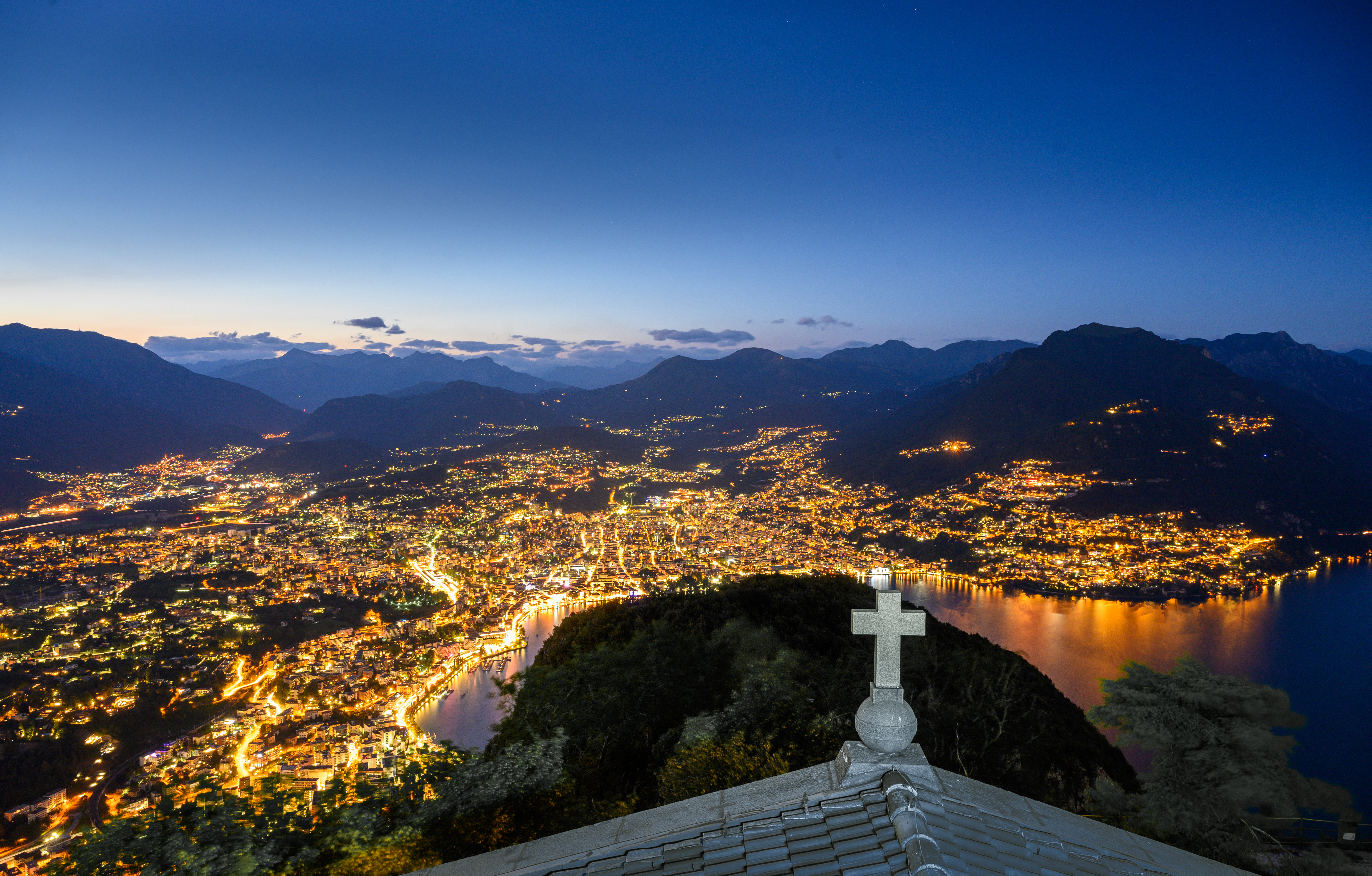 View on Lugano from Monte San Salvatore